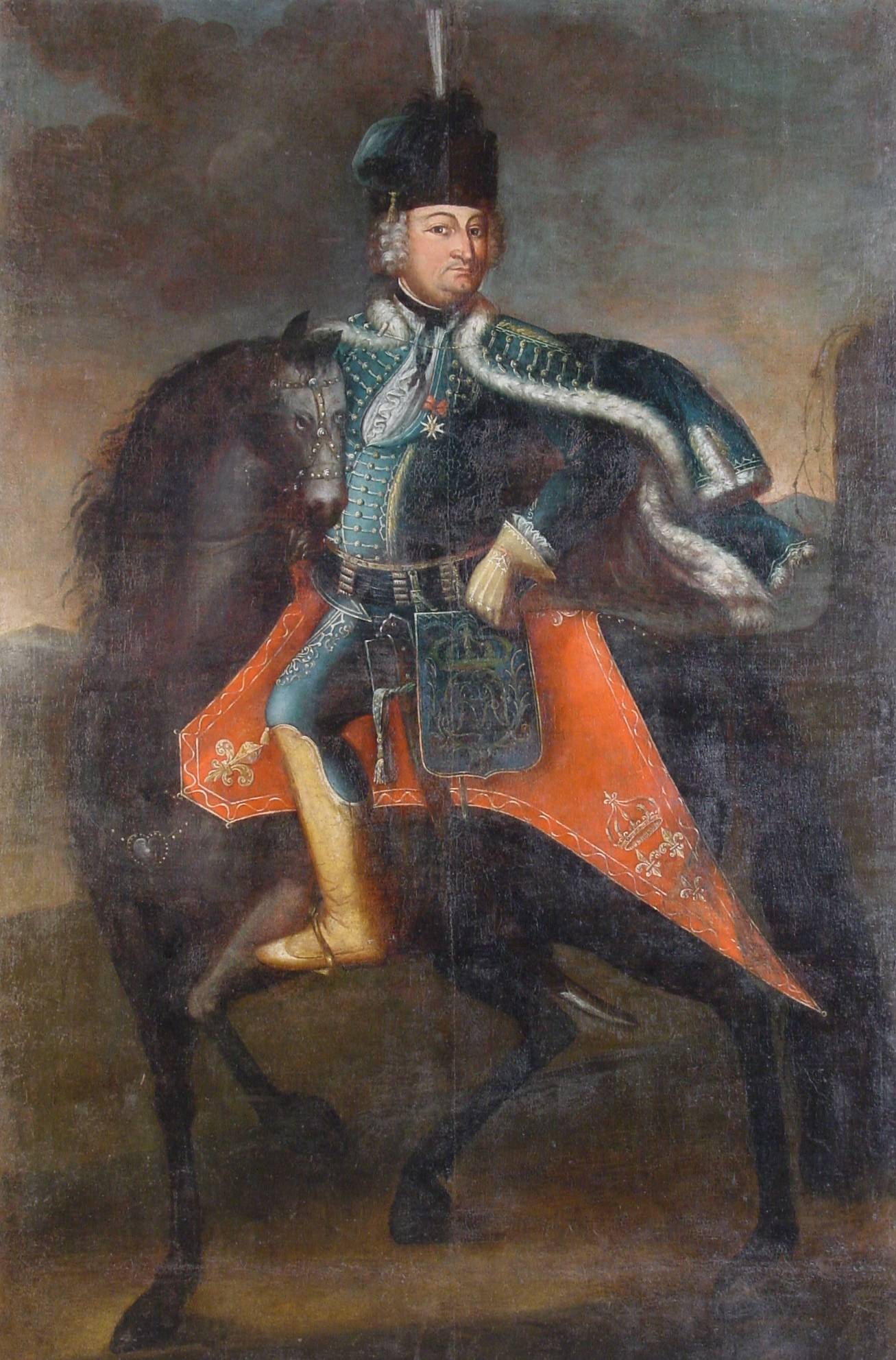 Ladislaus (Lászlo) Count Bercsényi (known in France as Ladislas Ignace, Comte de Bercheny) Brigadier des armées du Roi (1733-38), Maréchal de camp (1738-43), Inspecteur-général of all French hussar regiments (1743-59), Lieutenant-general (1744-58), Maréchal de France (1758-78) born August 3 1689, Eperjes (present-day Prešov), Upper-Hungary (present-day Slovakia) died January 9 1778, Castle of Luzancy, France